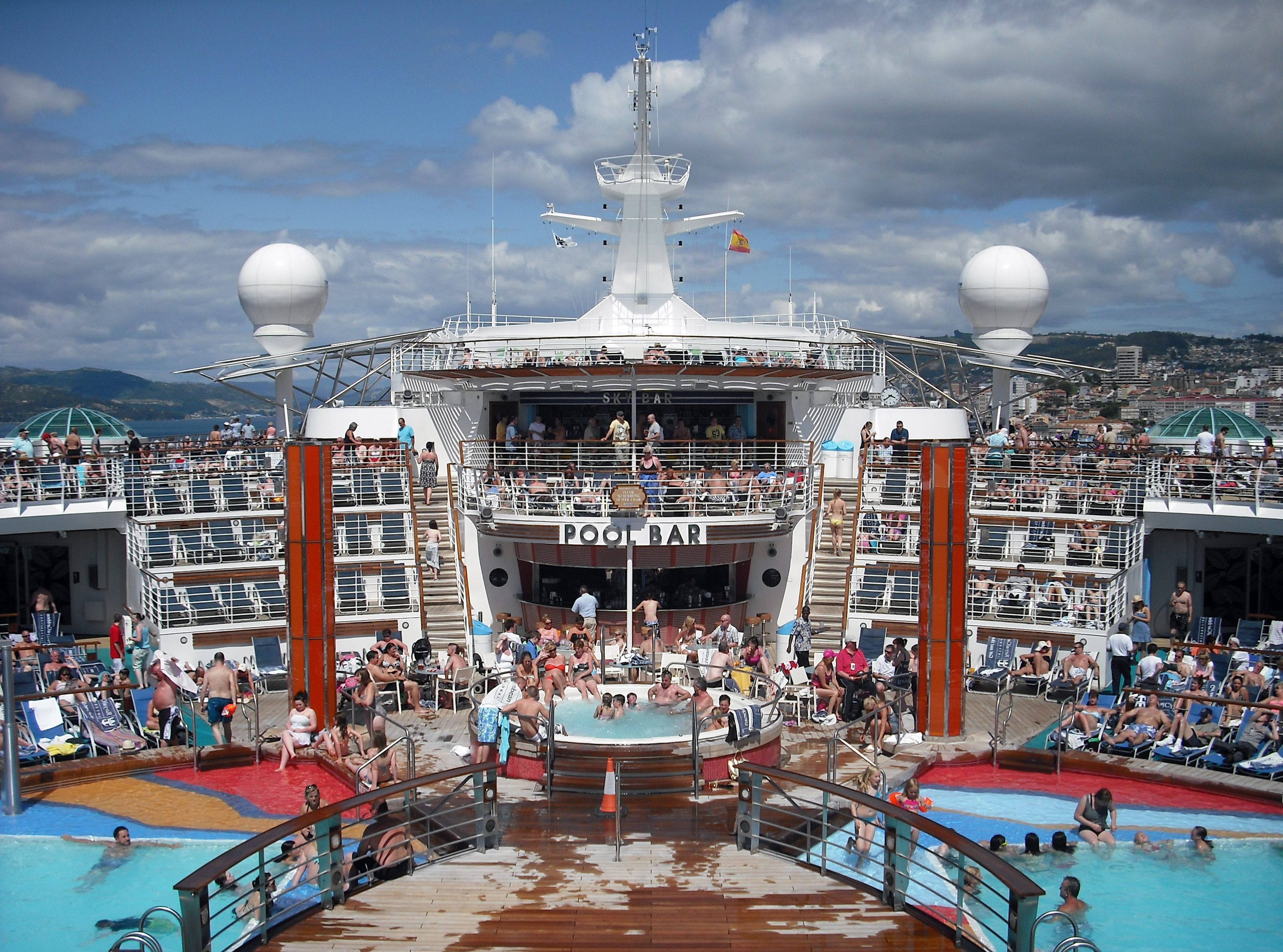 The swimming pool area and pool bar abord MS Independence of the Seas as she departs Vigo, Spain.